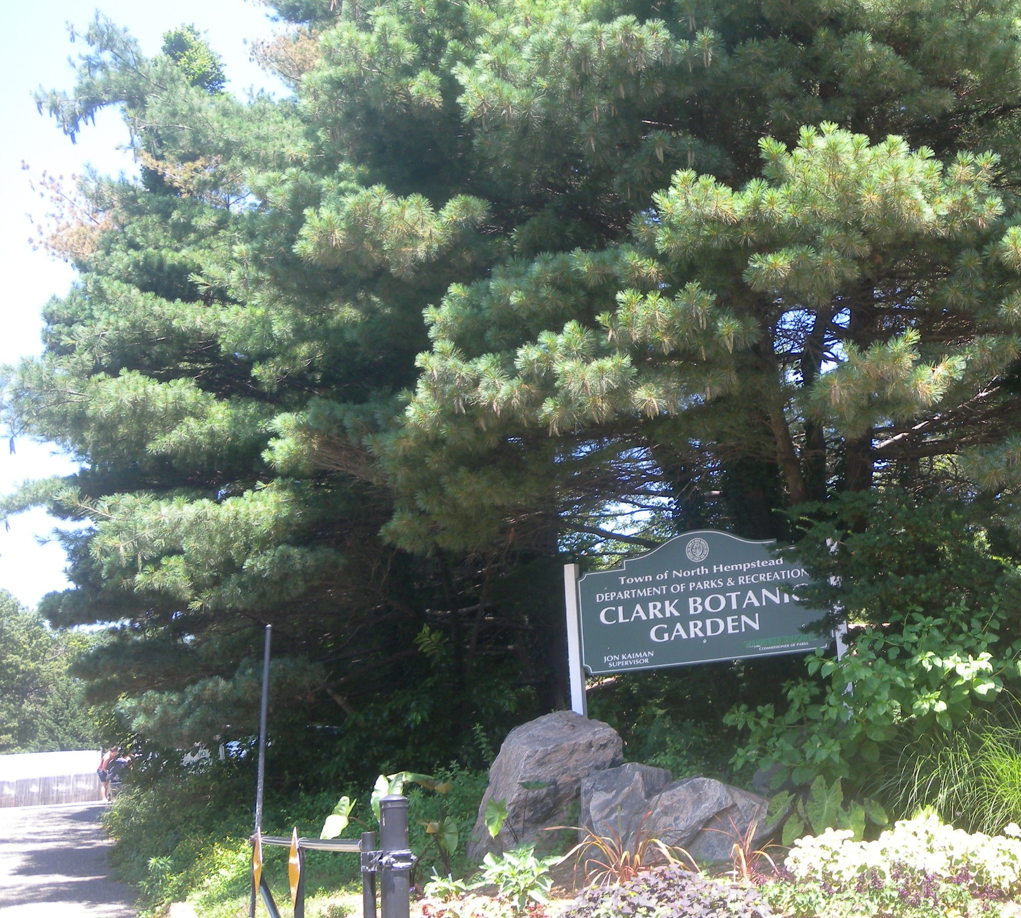 Looking north at Garden entrance on a sunny midday.